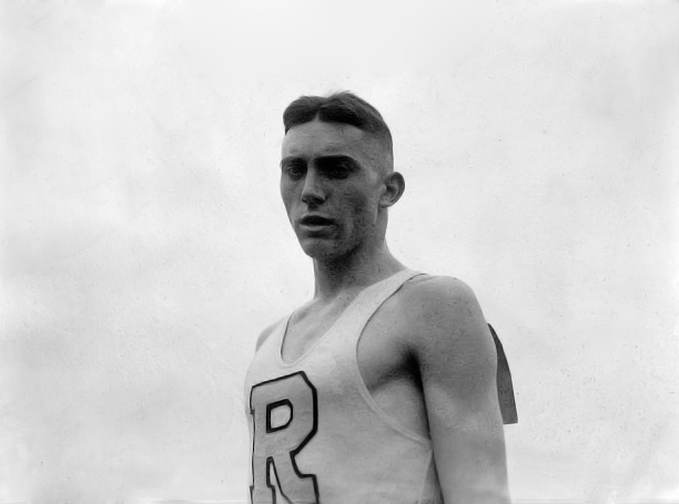 U.S. athlete William Cox, in a photograph published in the Rochester Herald on May 21, 1922. Cox starred for the Rochester Shop School and went on to win an Olympic bronze medal in 1924.